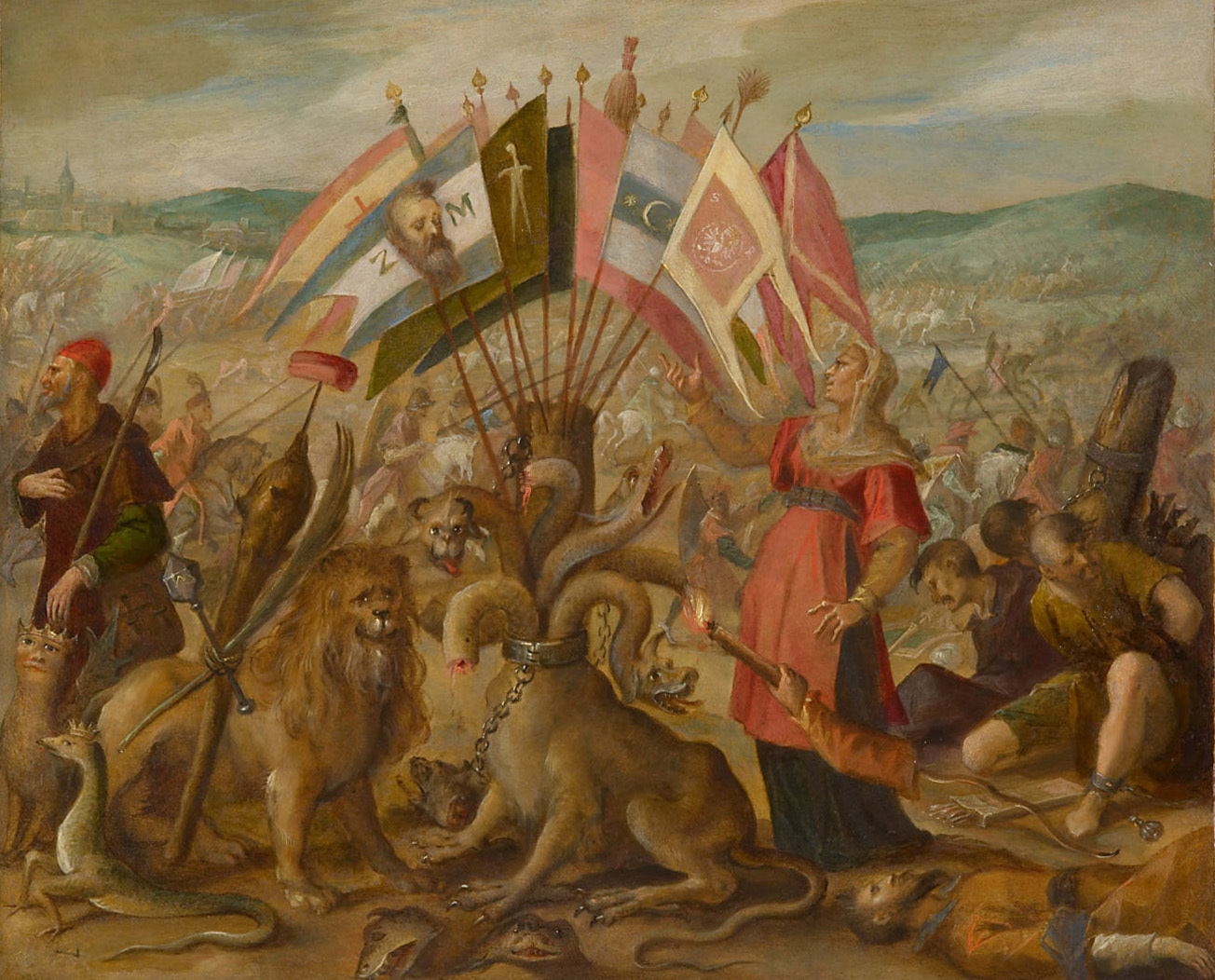 Allegory of the Turkish war: Battle of Braşov (Romania), 17 July 1603. Battle between Radu Şerban of Wallachia and Moise Szekely. Different Turkish, Polish and Transylvanian flags, captured in 1601 by Michael the Brave and Giorgio Basta